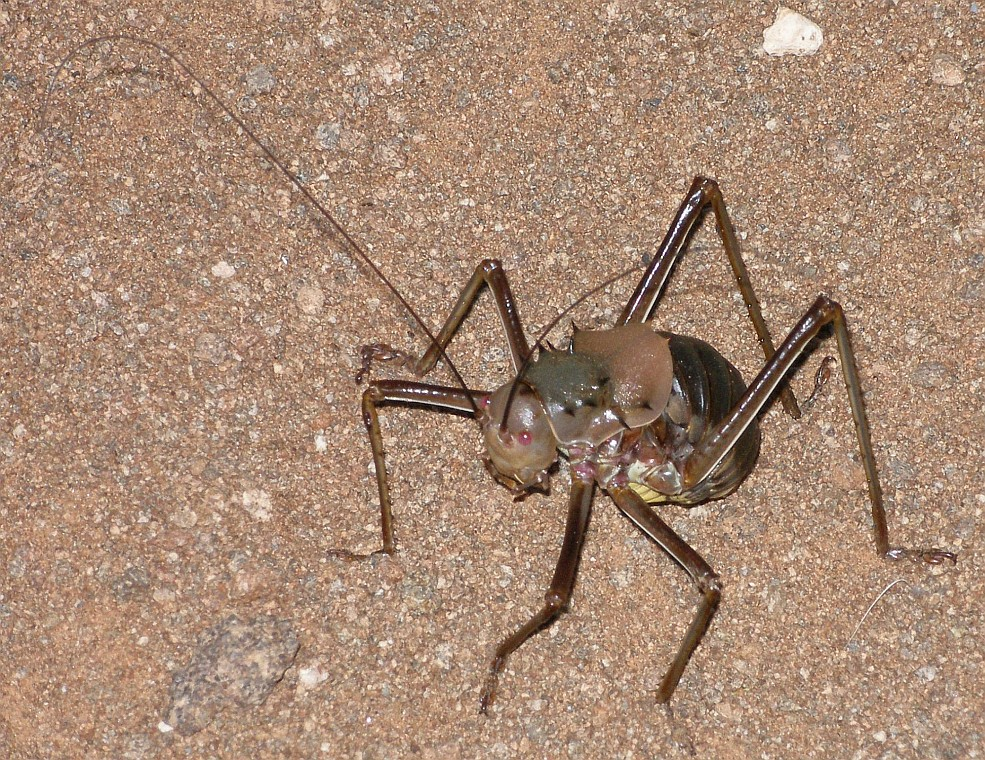 Schrecke (evtl. Hetrodinae oder Acanthoplus longipes), Süd-Namibia / Locust from South Namibia